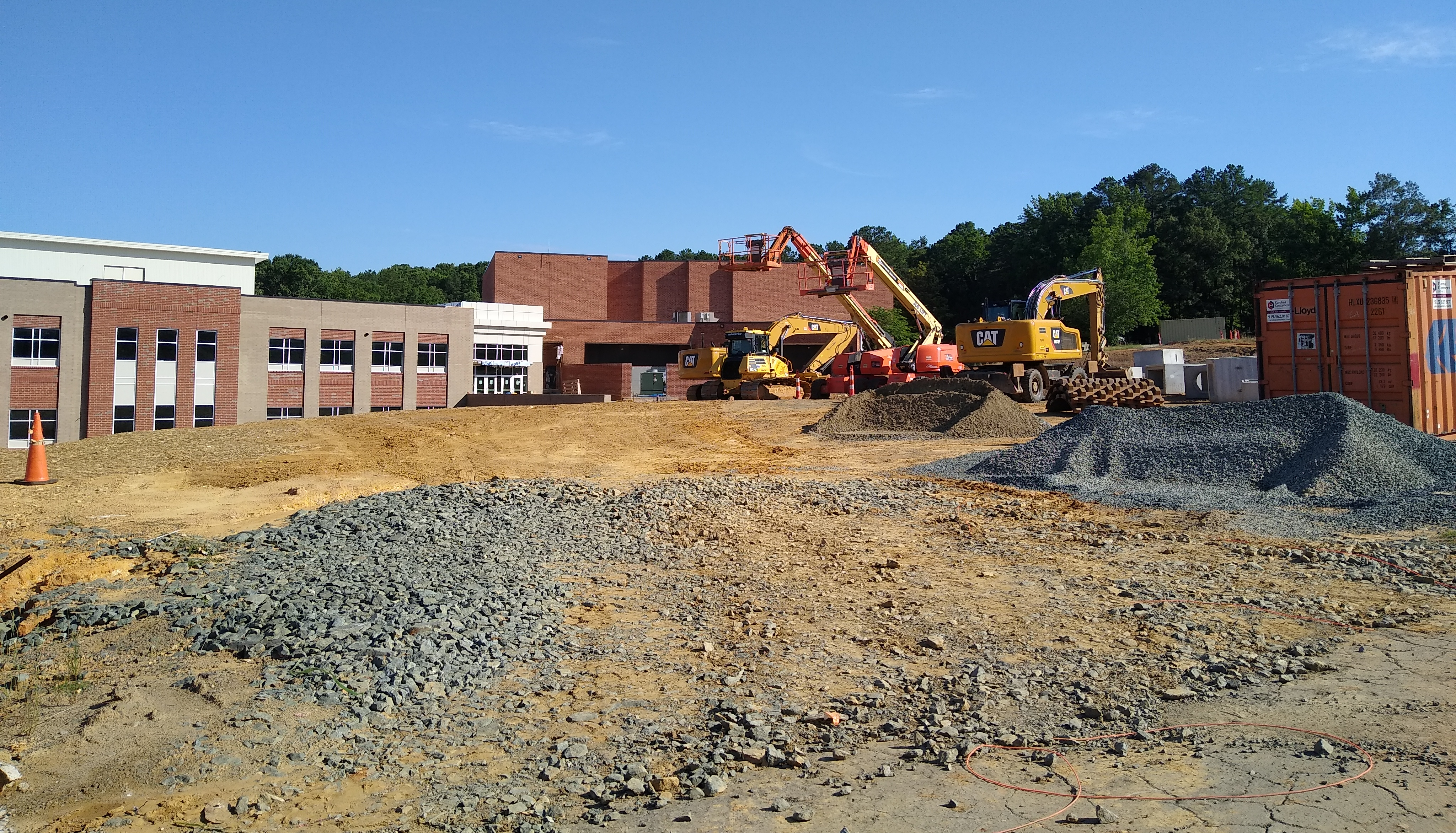 Chapel Hill High School (Chapel Hill, North Carolina) being renovated in June 2020.